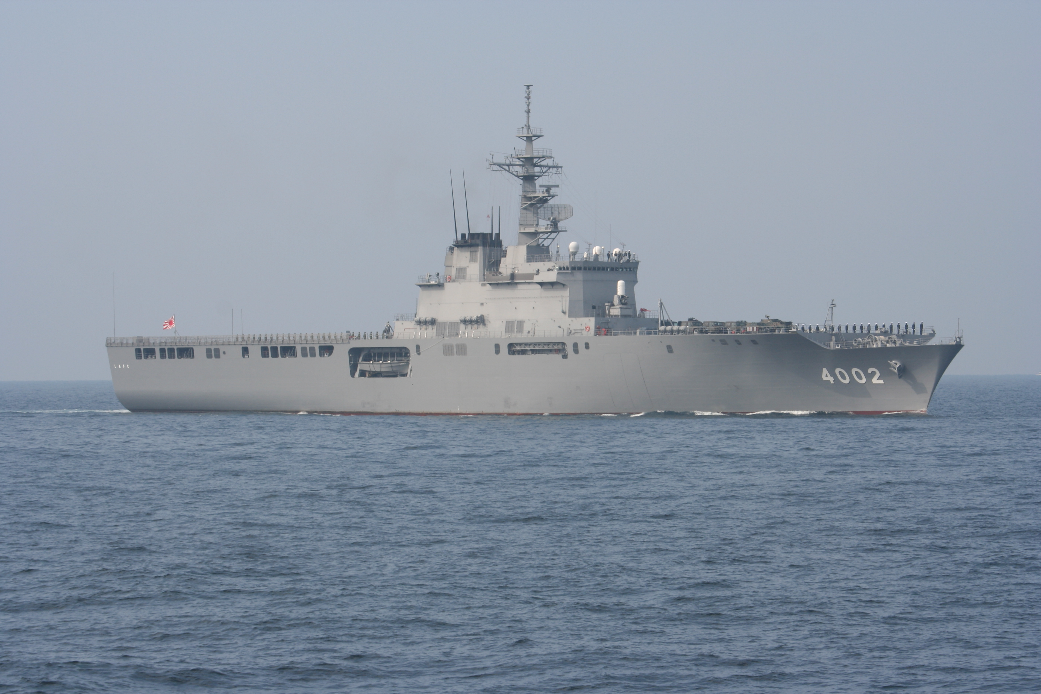 JS Shimokita (LST-4002) at SDF Fleet Review 2006.